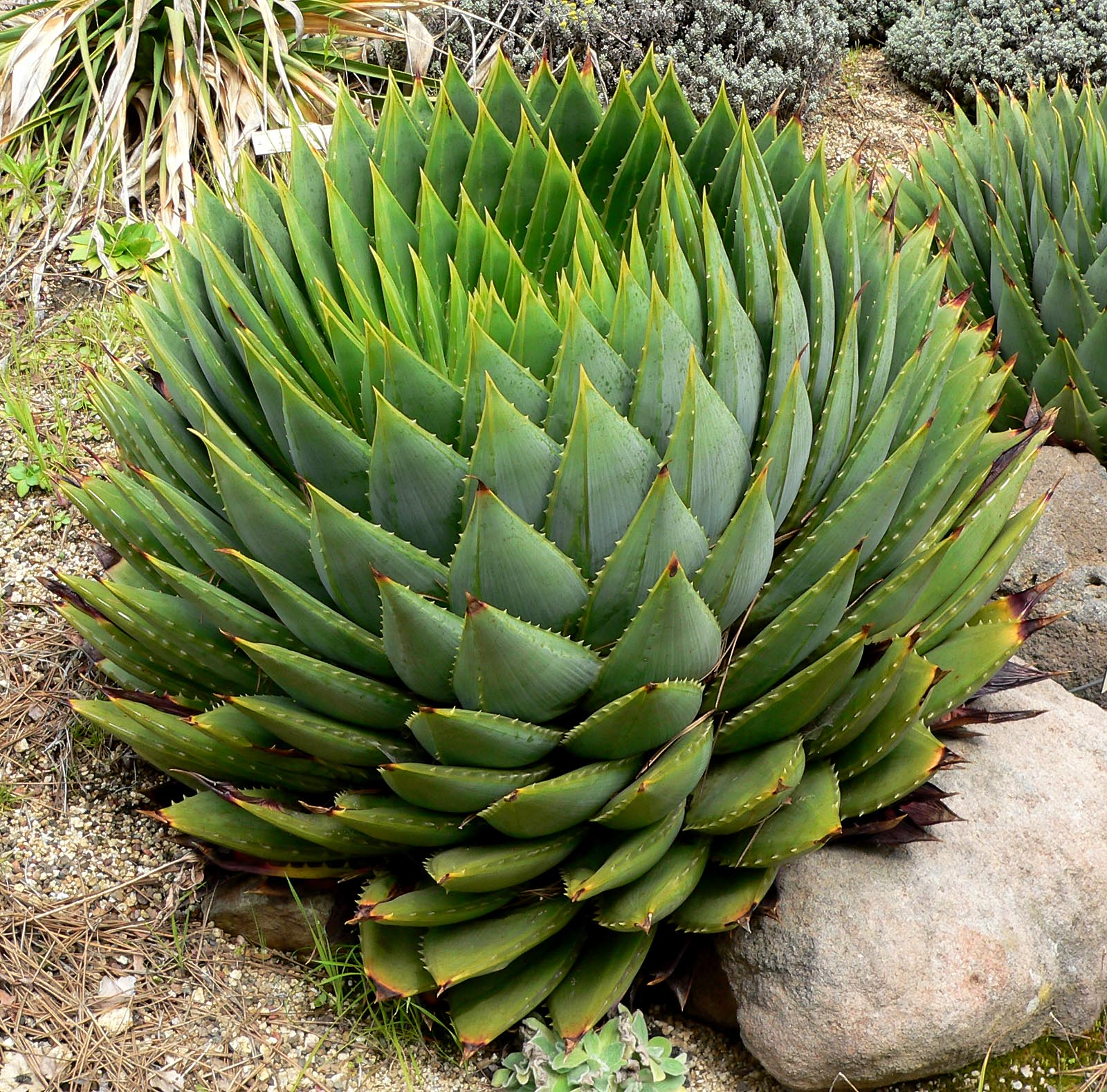 Photo of Aloe polyphylla at the University of California Botanical Garden